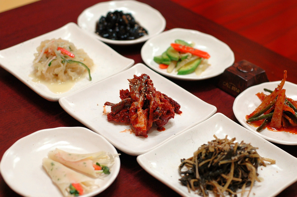 Banchan, small side dishes in Korean cuisine.